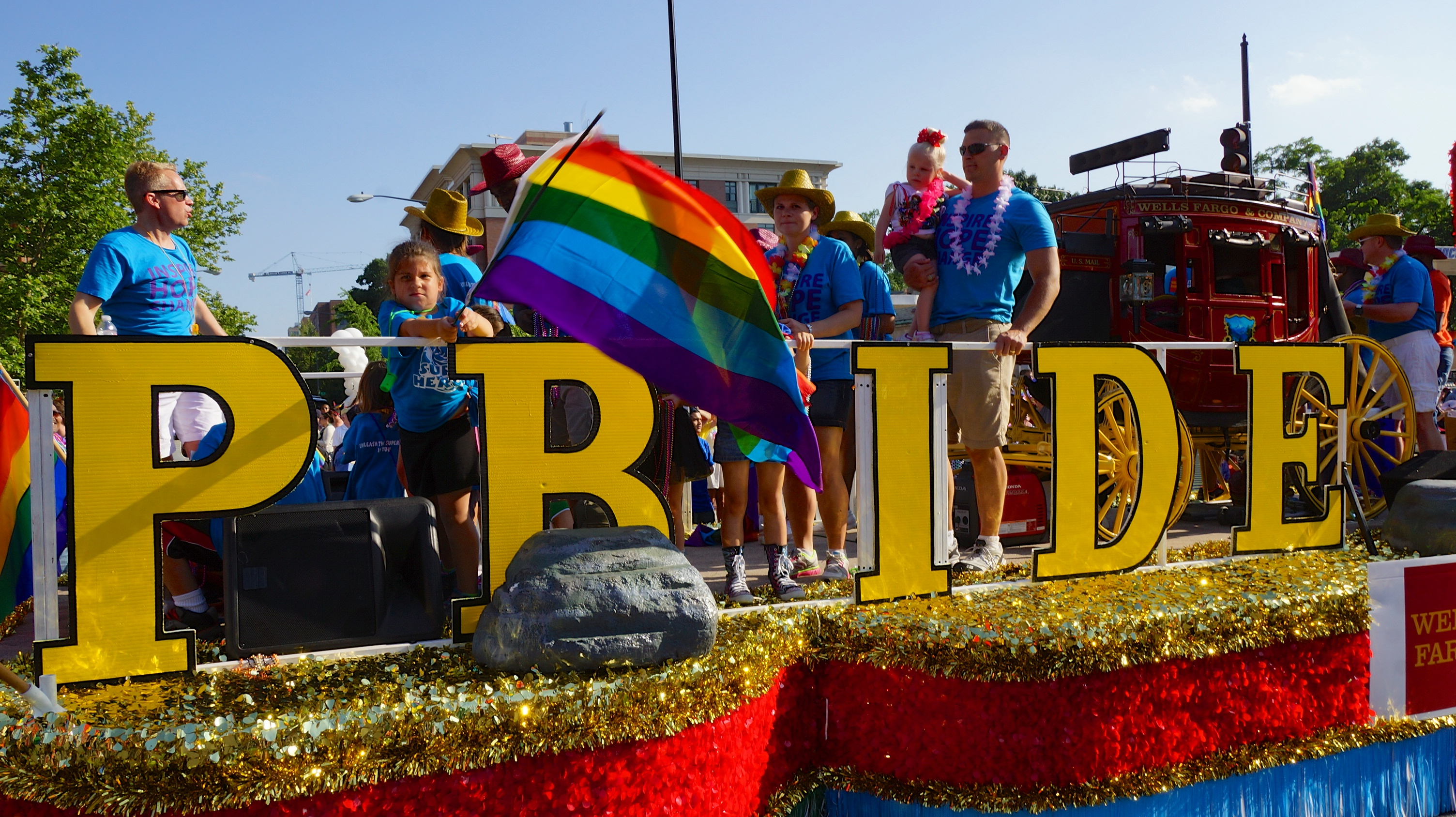 Kaiser Permanente, the United States' largest non-profit health system, is a silver sponsor for Capital Pride DC, in Washington, DC, USA , and invited doctors, nurses, clinicians, staff, members, and the community of allies for LGBTI health to walk with us.